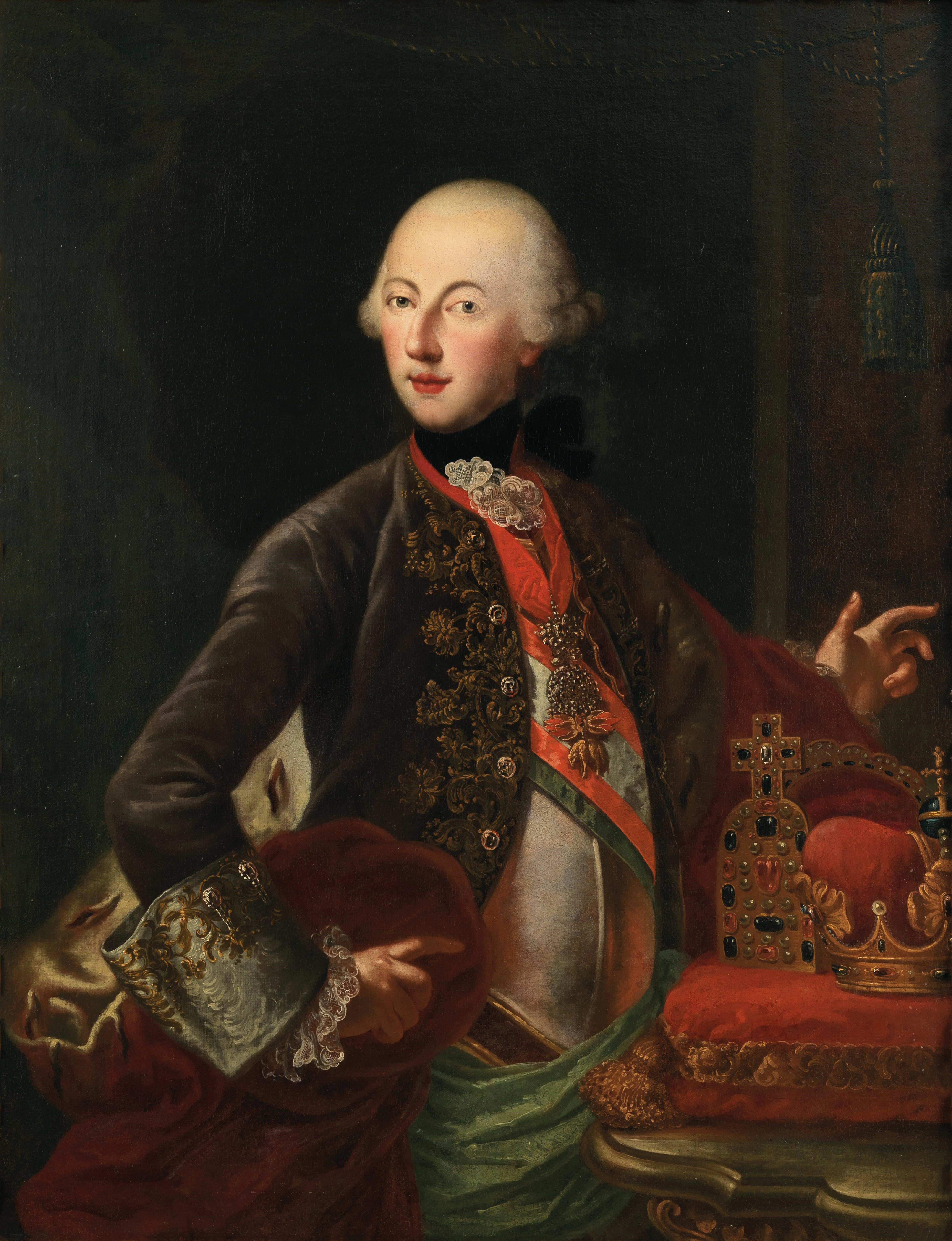 Hüftbild Kaiser Josephs II. als junger Mann (1741–1790), Öl auf Leinwand, 111,5 x 85,5 cm, gerahmt Provenienz: Privatsammlung, Neapel Auction: Alte Meister II, 22 October 2019